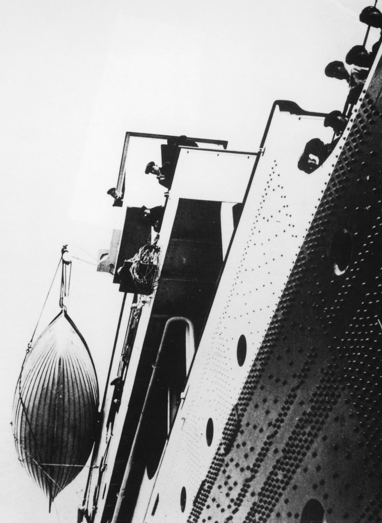 Titanic preparing for her maiden voyage. Captain Smith can be seen looking out from the bridge